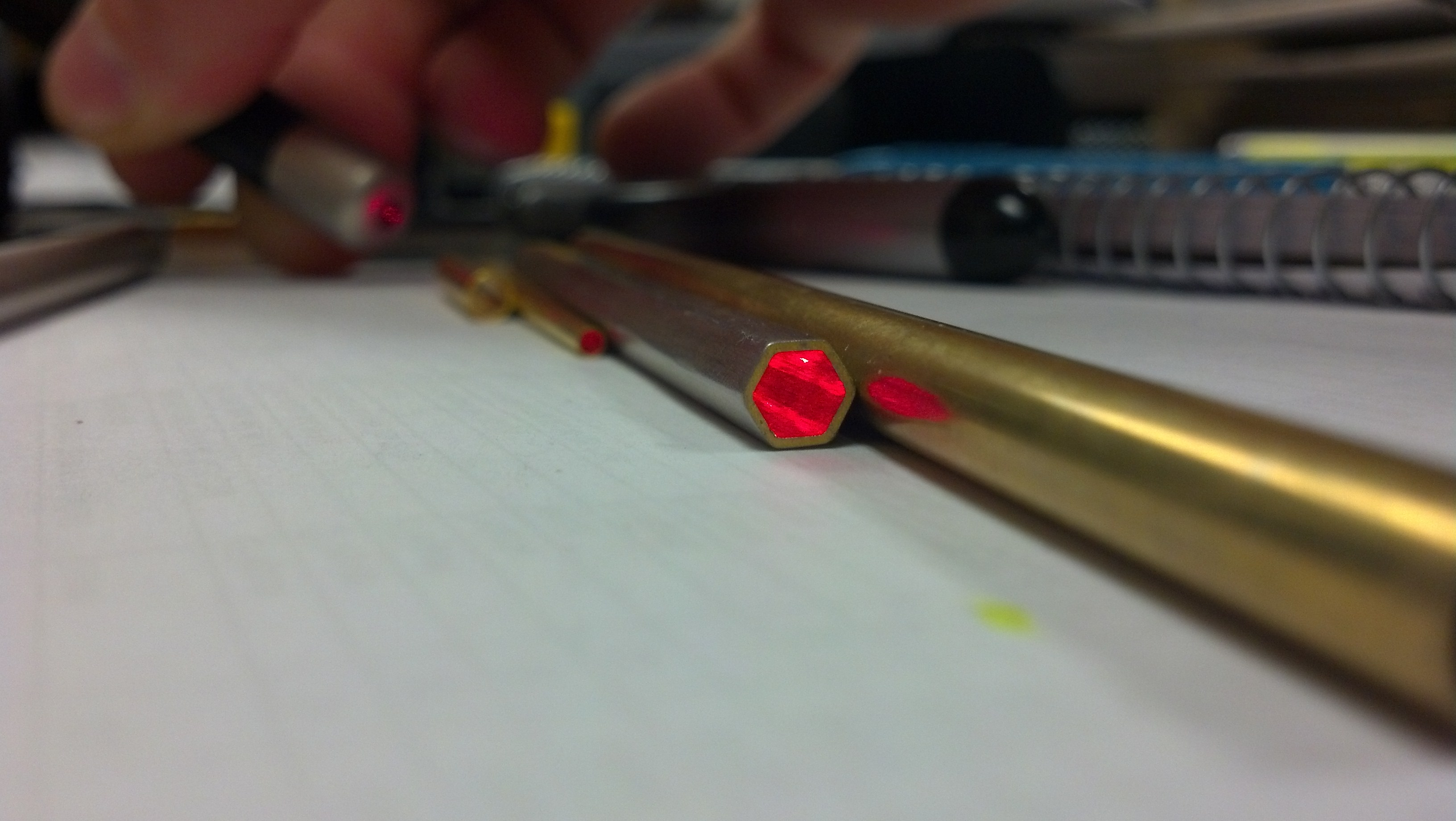 Laser beam shining on IR reflective Laser Gold Light Pipe Laser Gold